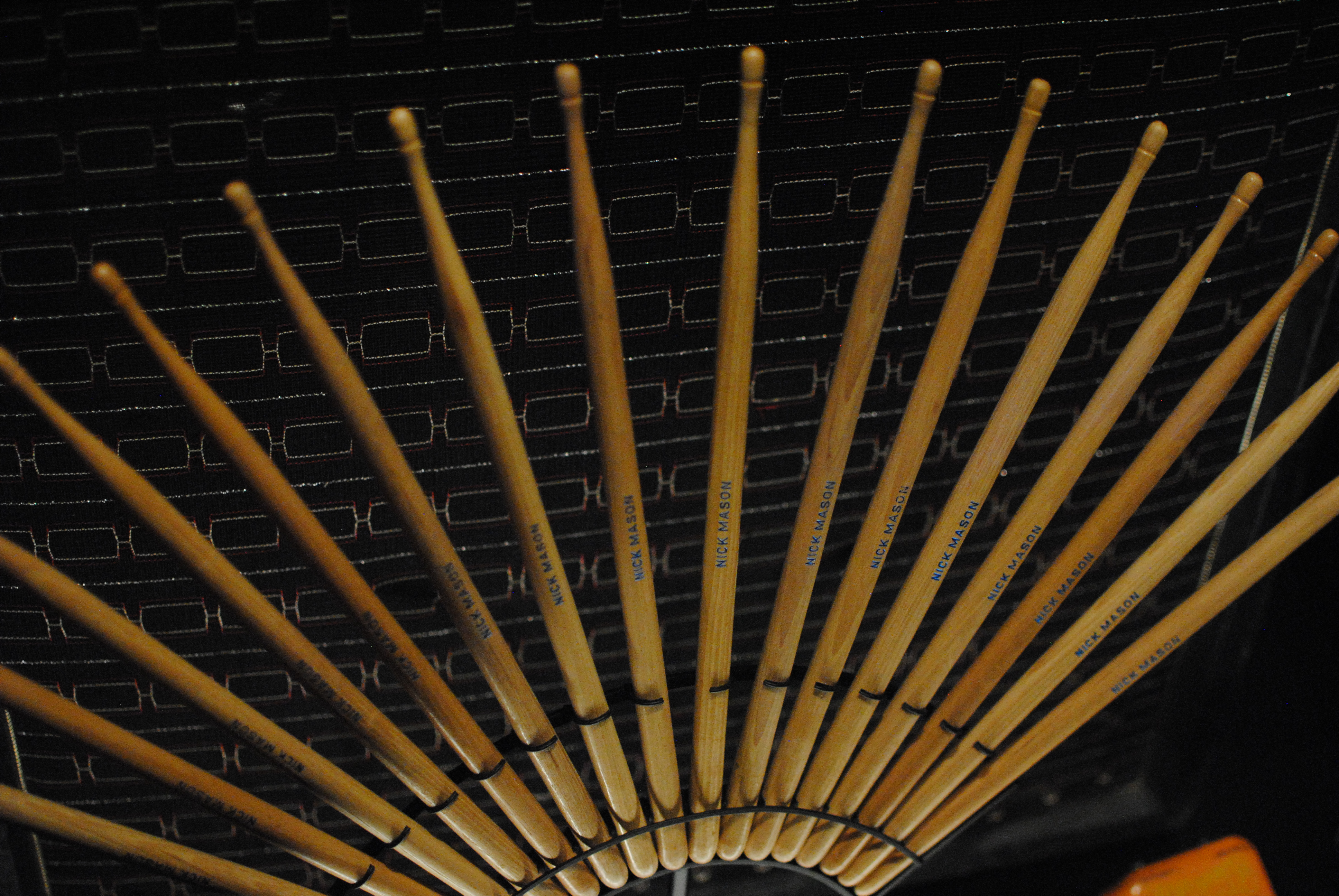 displayed at the Pink Floyd: Their Mortal Remains exhibition at the Victoria and Albert Museum.